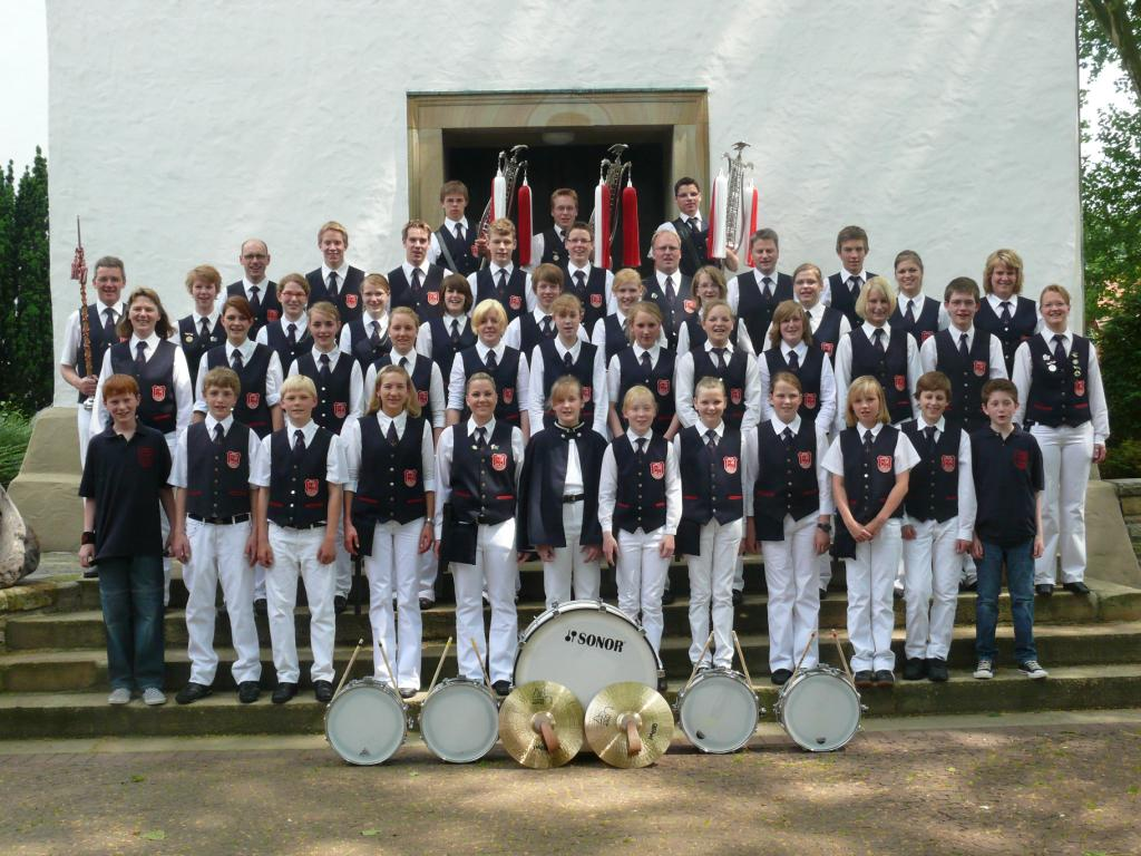 Spielmannszug Milte